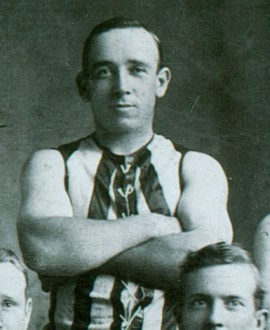 Photograph of Harry Pears in 1906